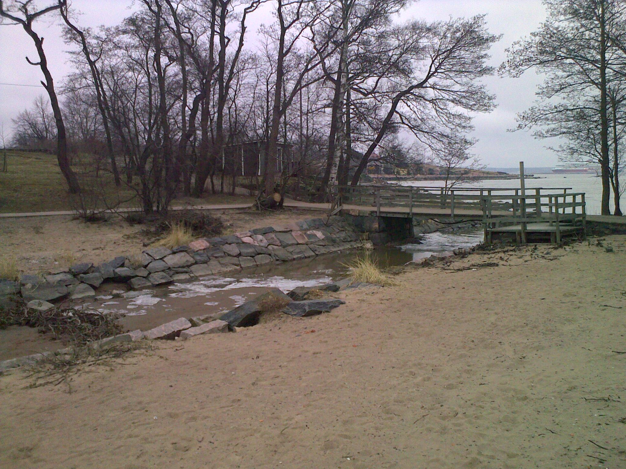 Uunisaari near Kaivopuisto, Helsinki